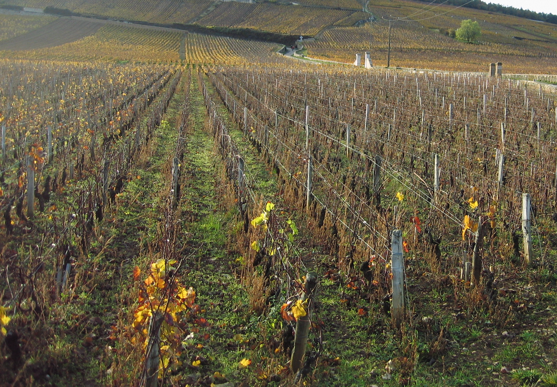 La Grande Rue vineyard seen from the east (the Vosne-Romanée direction) in autumn